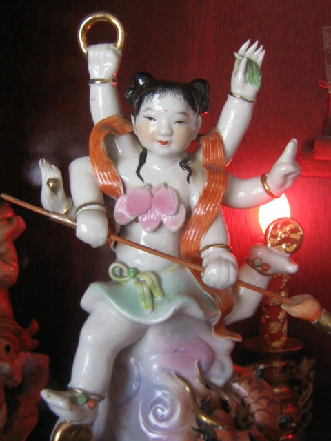 originally uploaded on english wikipedia date :10:05, 20 February 2007 user : Thetruthaboutfgs Original summary : Picture of a multi-armed Nezha statue; property of the matriarch of the family. Original licensing